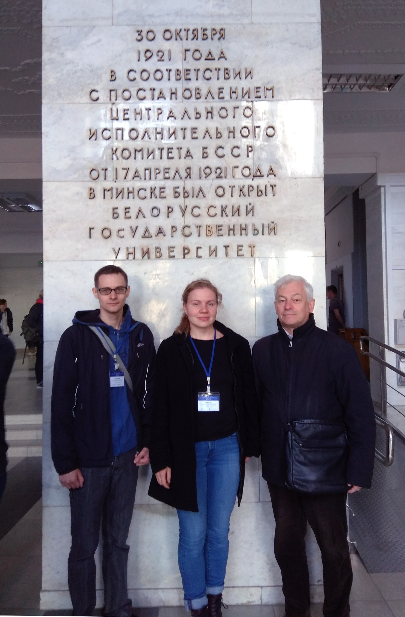 From left to right: PhD students Alexander Sazonov and Alexandra Ivanova, and Professor Alexander Kirillov from the Institute of Applied Mathematical Research of the Karelian Research Centre of RAS. Memorable inscription on a column in Belarusian State University, 2018. International Conference "Dynamical systems: stability, control, optimization" (DSSCO’18), dedicated to the 100th anniversary of Evgeniy Barbashin, 2018, Minsk.